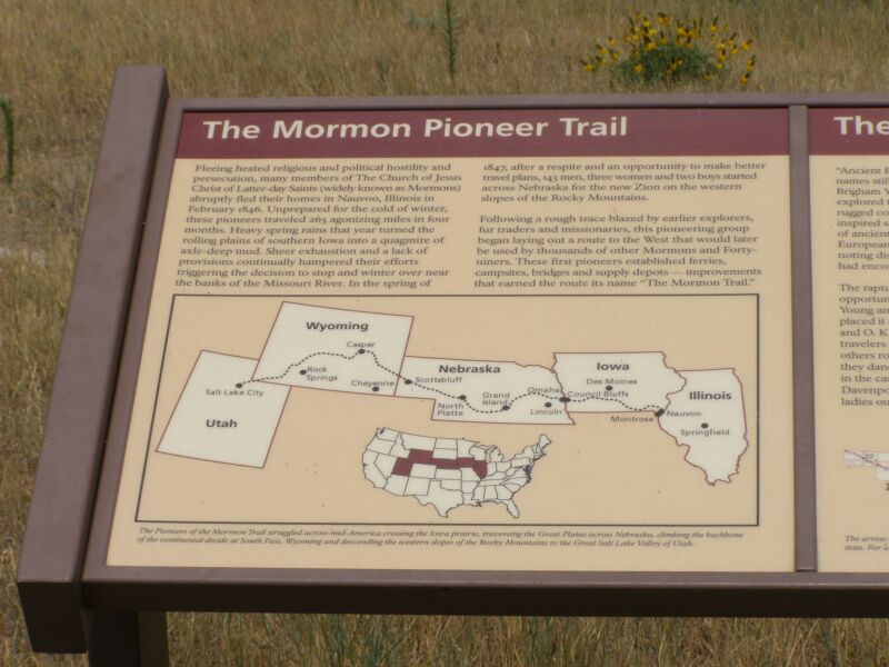 A wayside sign in Western Nebraska about the Mormon Trail.